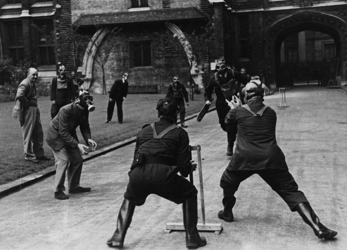 Description: National Archives (then Public Record Office) staff play cricket outside Chancery Lane offices in London during the Blitz. Date: World War Two Our Catalogue Reference: PRO 50/59 This image is from the collections of The National Archives. Feel free to share it within the spirit of the Commons. For high quality reproductions of any item from our collection please contact our image library.